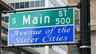 Crop of street sign picture